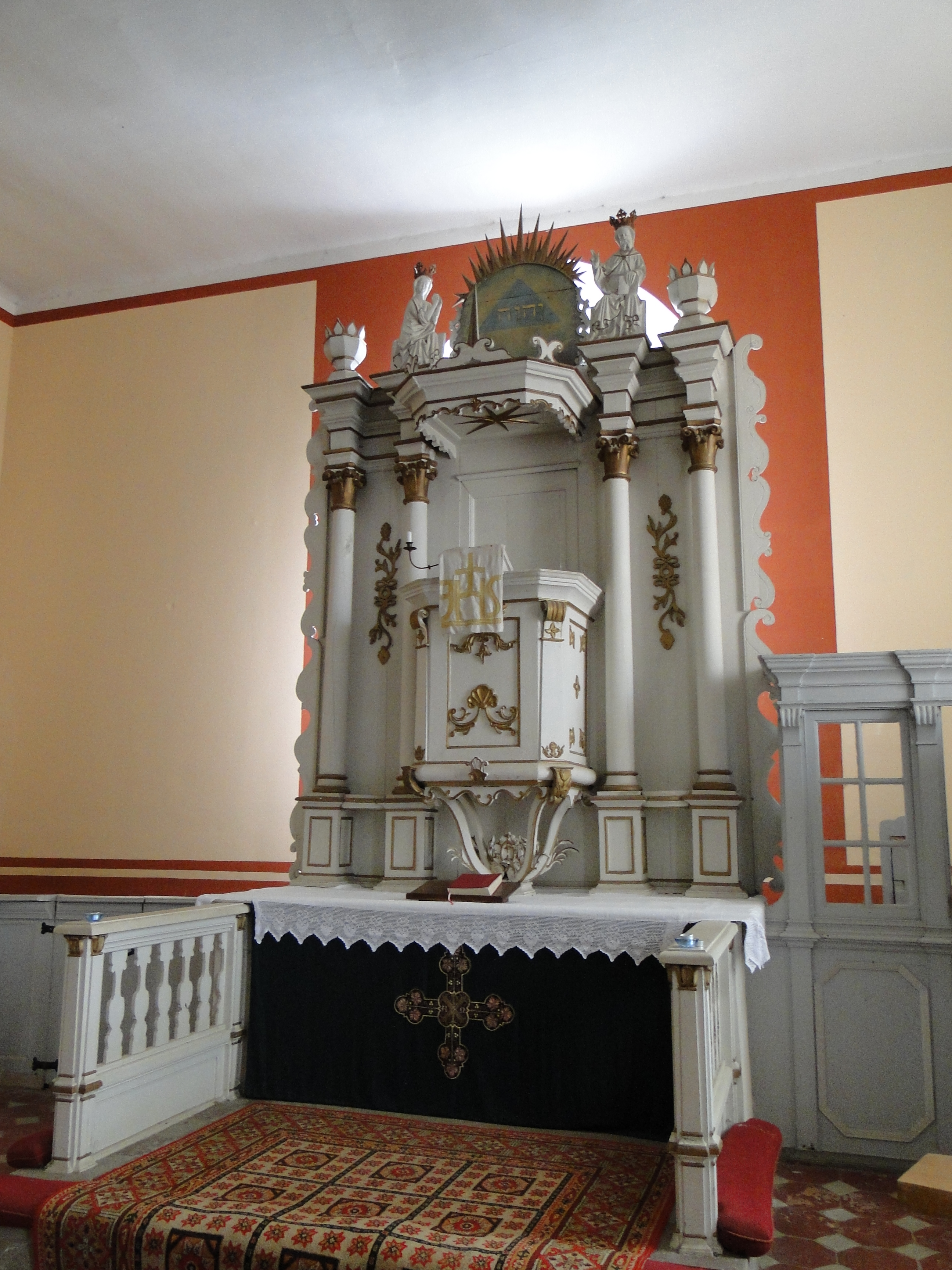 Church in Kladrum, district Ludwigslust-Parchim, Mecklenburg-Vorpommern, Germany